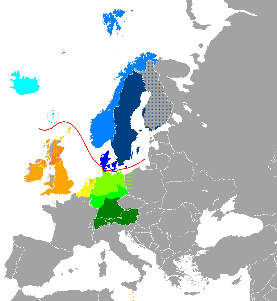 West Germanic languages Dutch (Low Franconian, West Germanic) Frisian (Anglo-Frisian, West Germanic) English (Anglo-Frisian, West Germanic) Low German (West Germanic) Central German (High German, West Germanic) Upper German (High German, West Germanic) North Germanic languages East Scandinavian West Scandinavian Line dividing the North and West Germanic languages